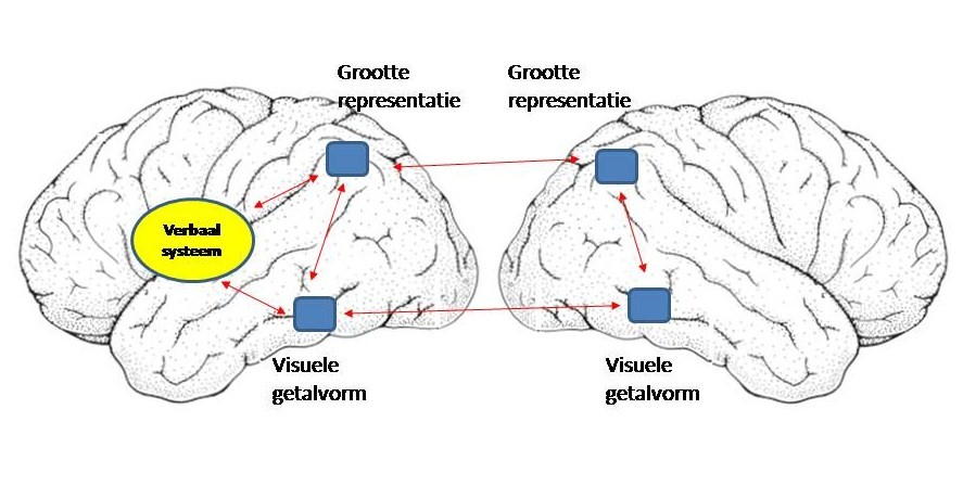 Triple code model